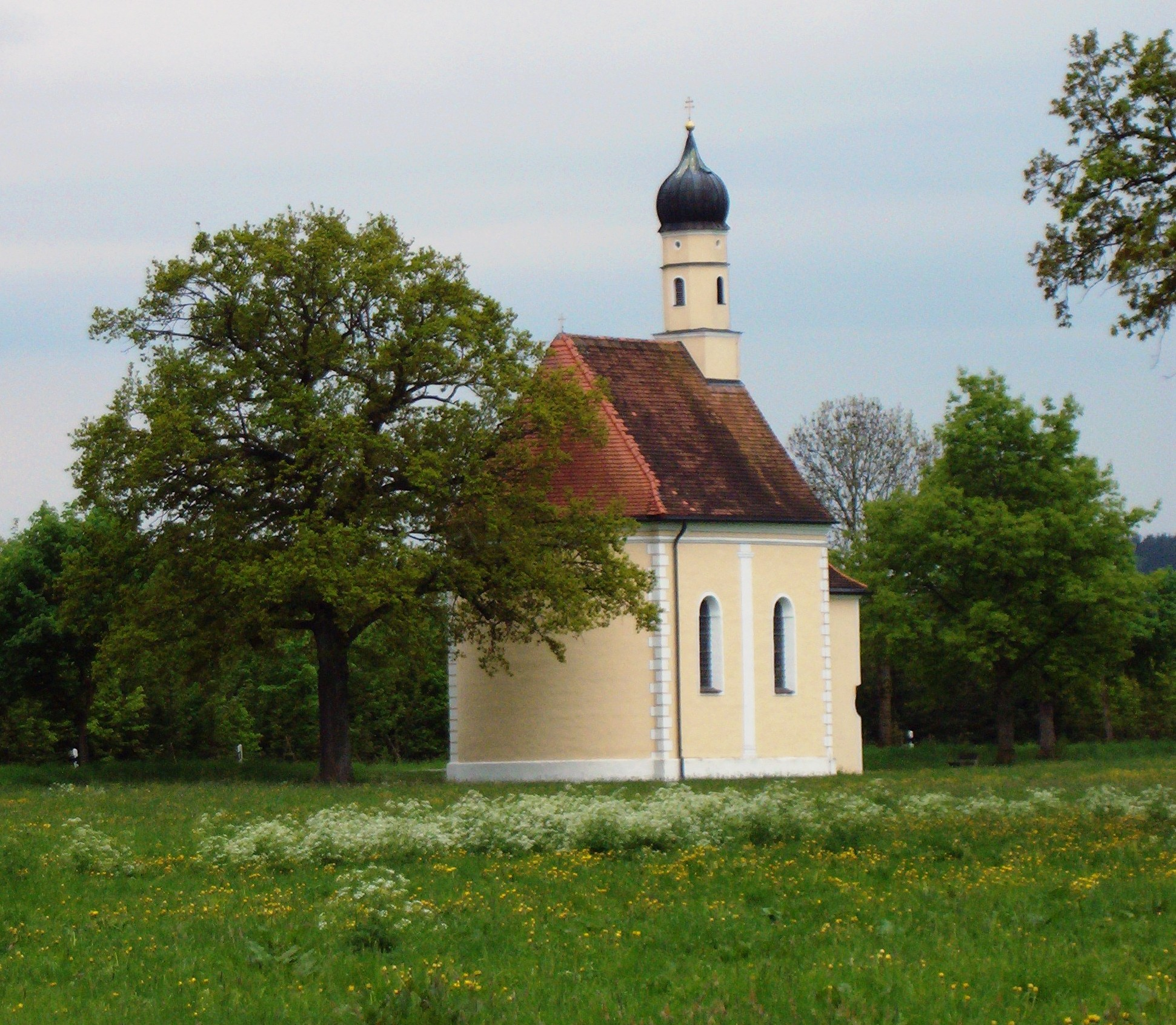 description follows